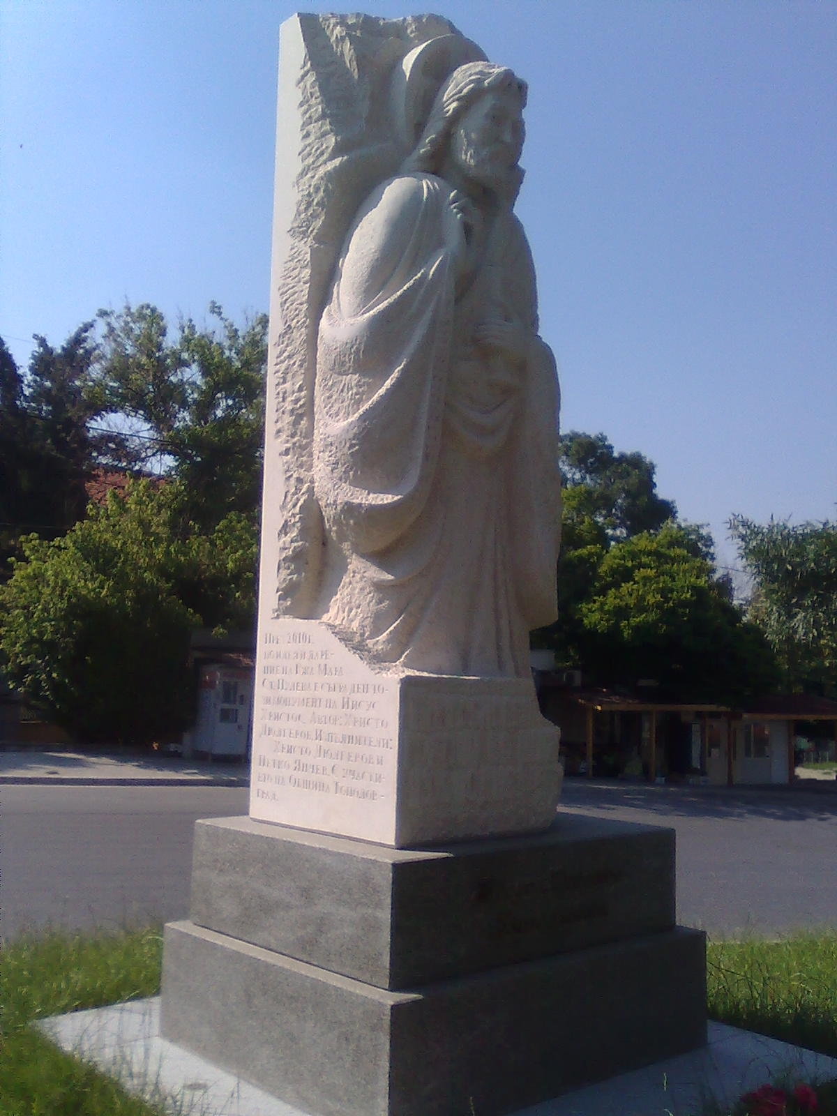 „The Blessing Christ“ - stone monument on „Bulgaria“ square, Topolovgrad